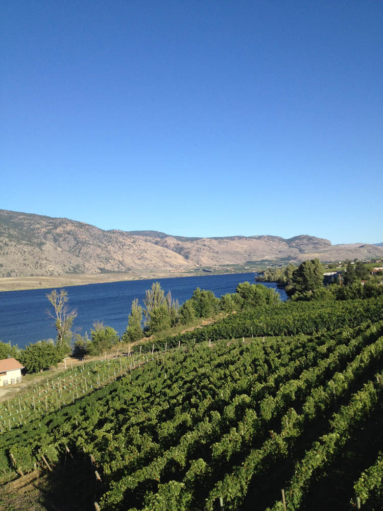 One of LaStella's many vineyards